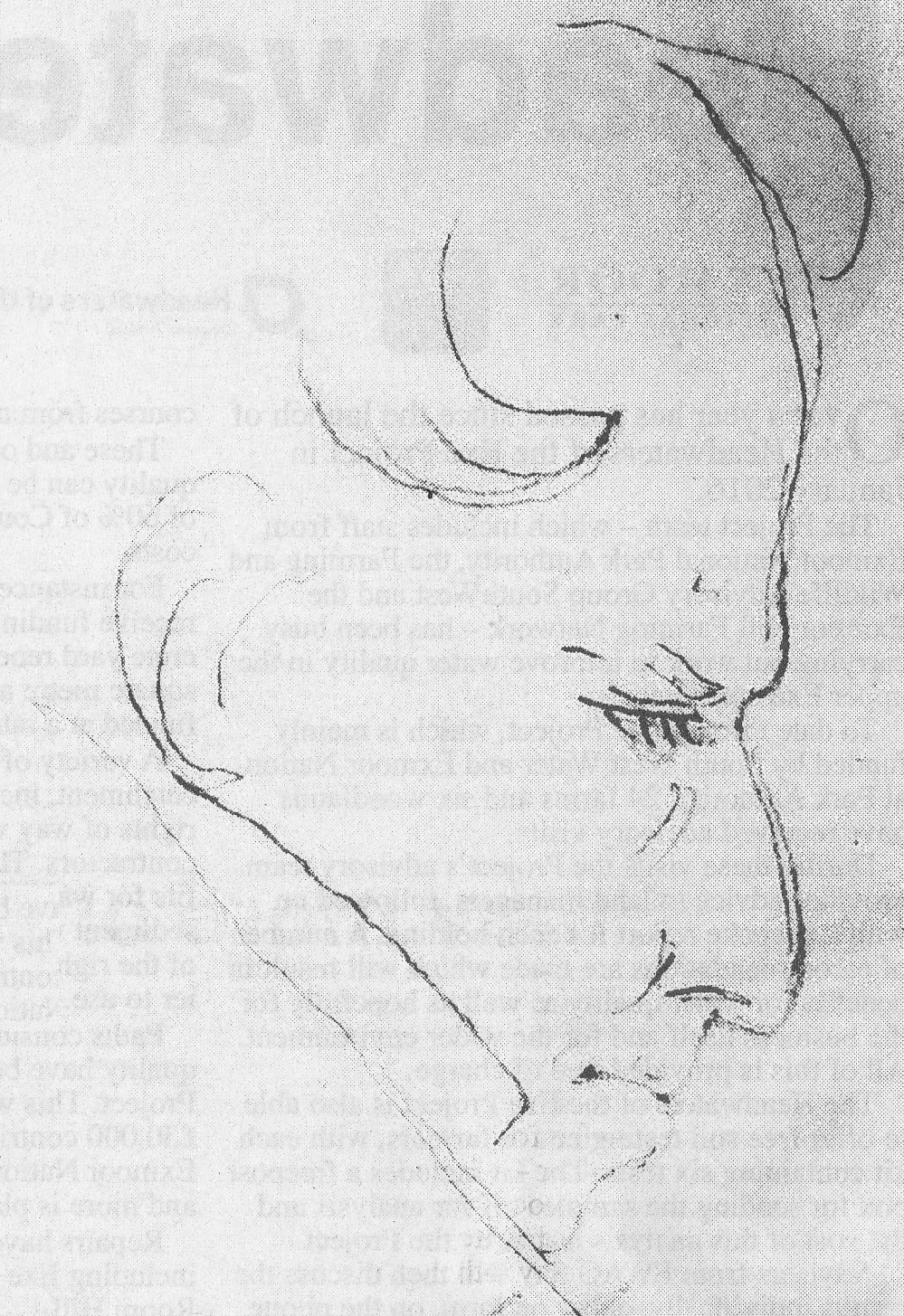 Profile sketch portrait of John Knight (d.1850), who pioneered the agricultural development of the former royal forest of Exmoor, Devon and Somerset, England. Scrapbook of Isabella Knight, daughter of John Knight, Edward Lear Collection, British Museum Prints and Drawings Collection